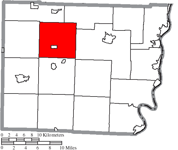 Map of the municipal and township boundaries of Belmont County, Ohio, United States, as of the 2000 census, with the location of Union Township highlighted. Township borders are shown only in unincorporated areas in order to differentiate incorporated and unincorporated areas more clearly.